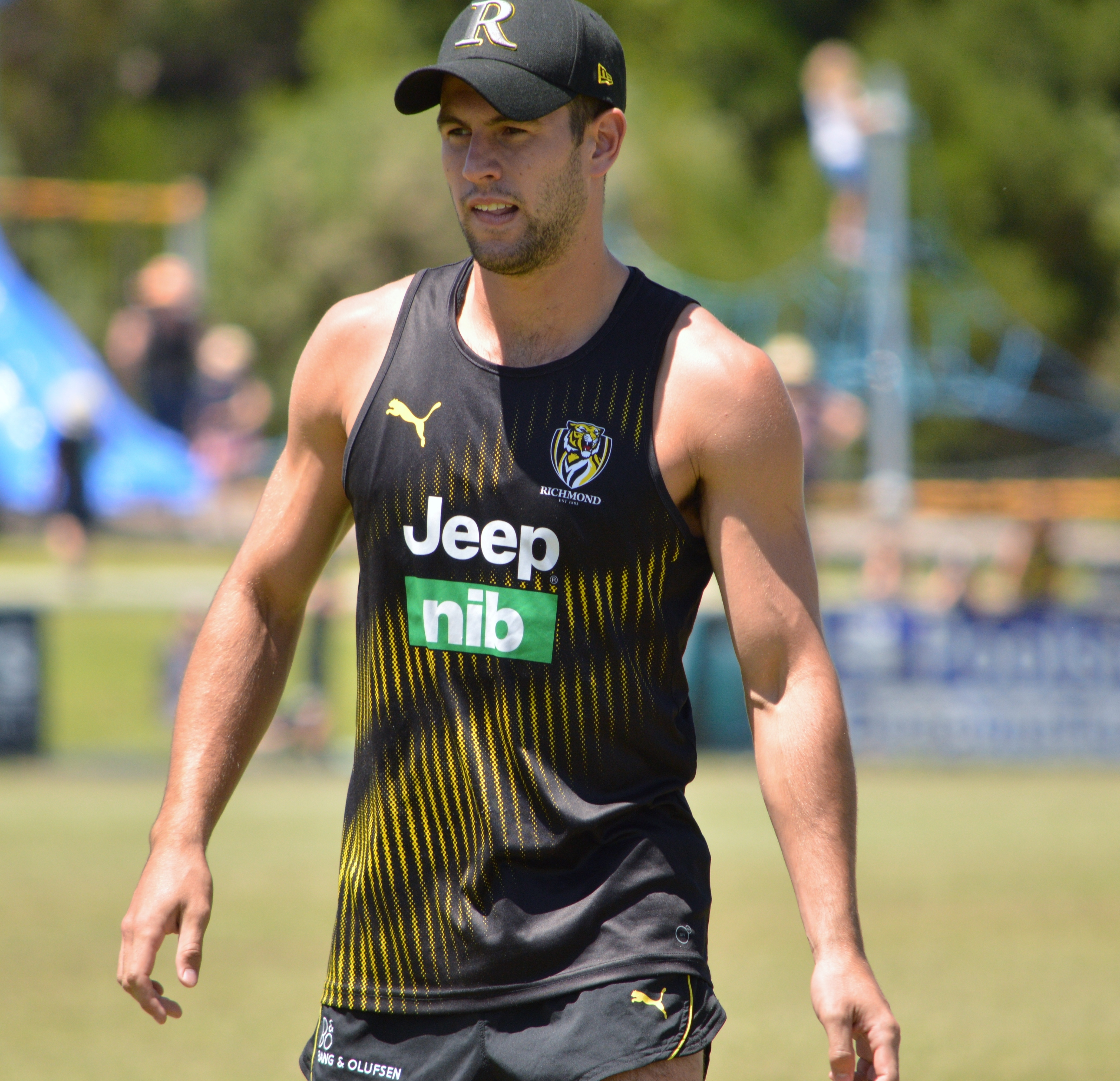 Jack Graham at Richmond's Family Day in January 2018